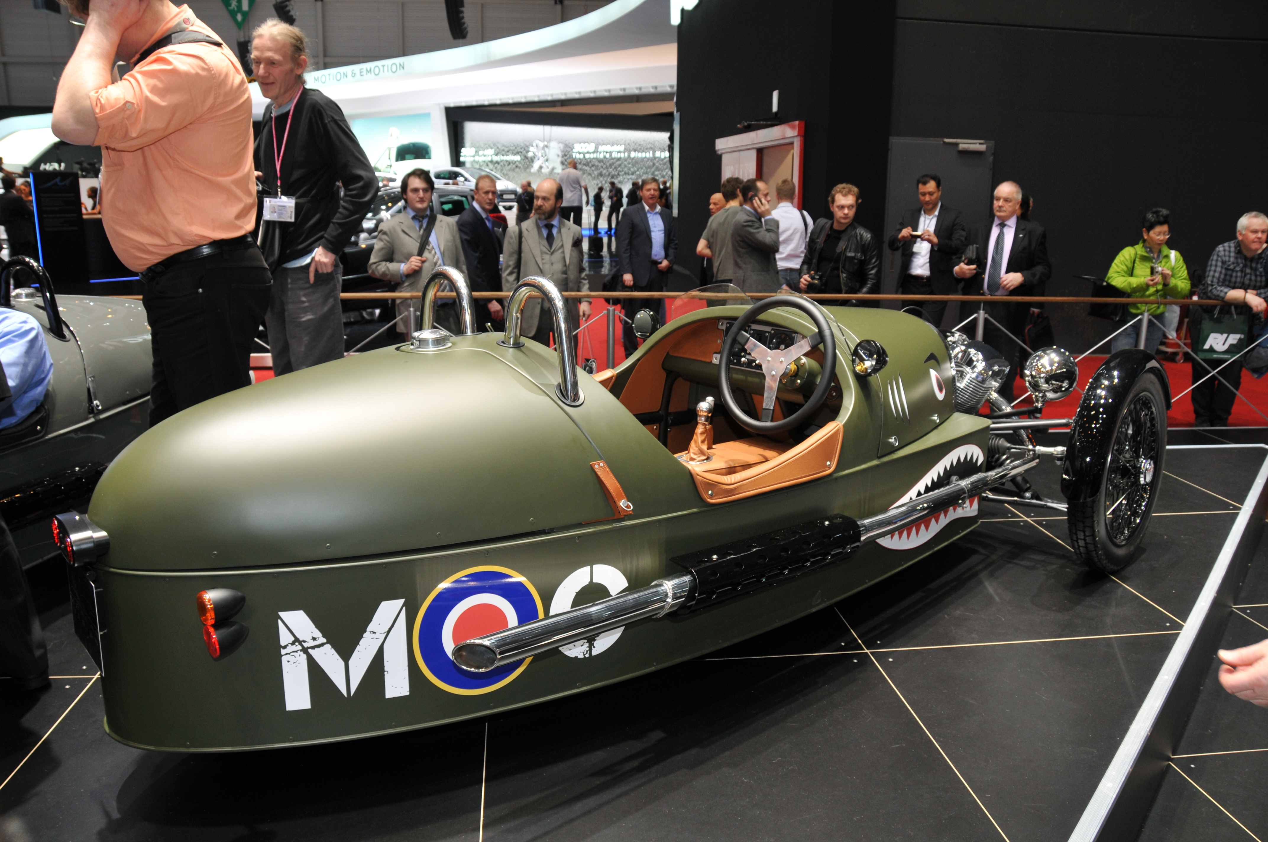 The Morgan Threewheeler at the 2011 Geneva Motor Show. For more info and pics